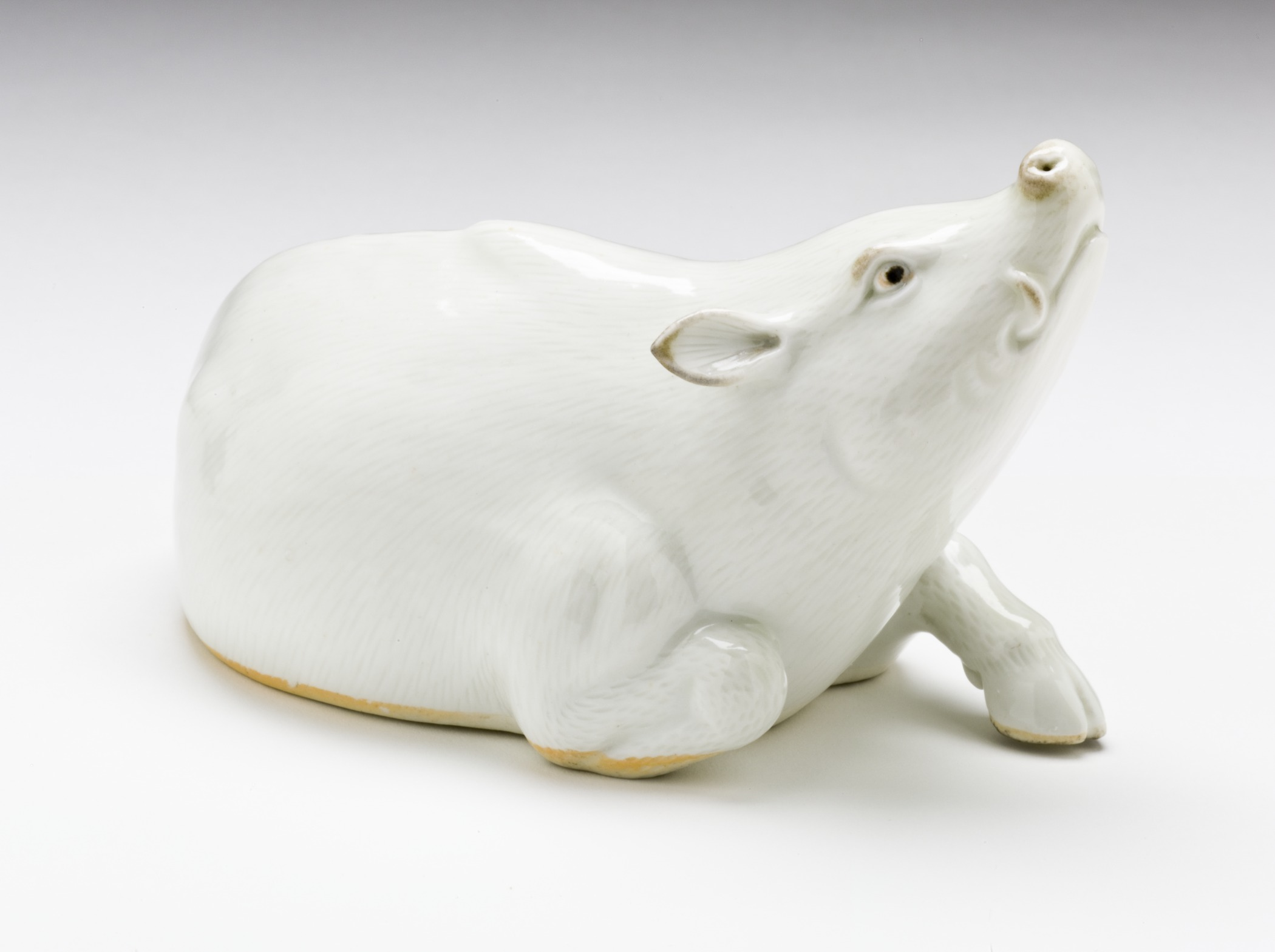 Japan, 19th century Sculpture Hirado Mikawachi ware; porcelain with clear glaze Gift of Allan and Maxine Kurtzman (AC1998.115.13) Japanese Art Currently on public view: Pavilion for Japanese Art, floor 3